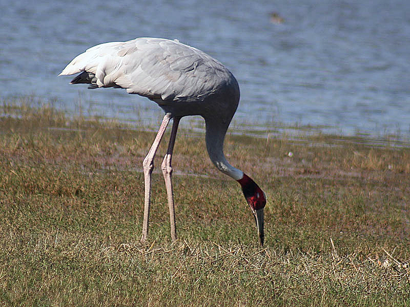 Sarus Crane Grus antigone at Bharatpur, Rajasthan, India.